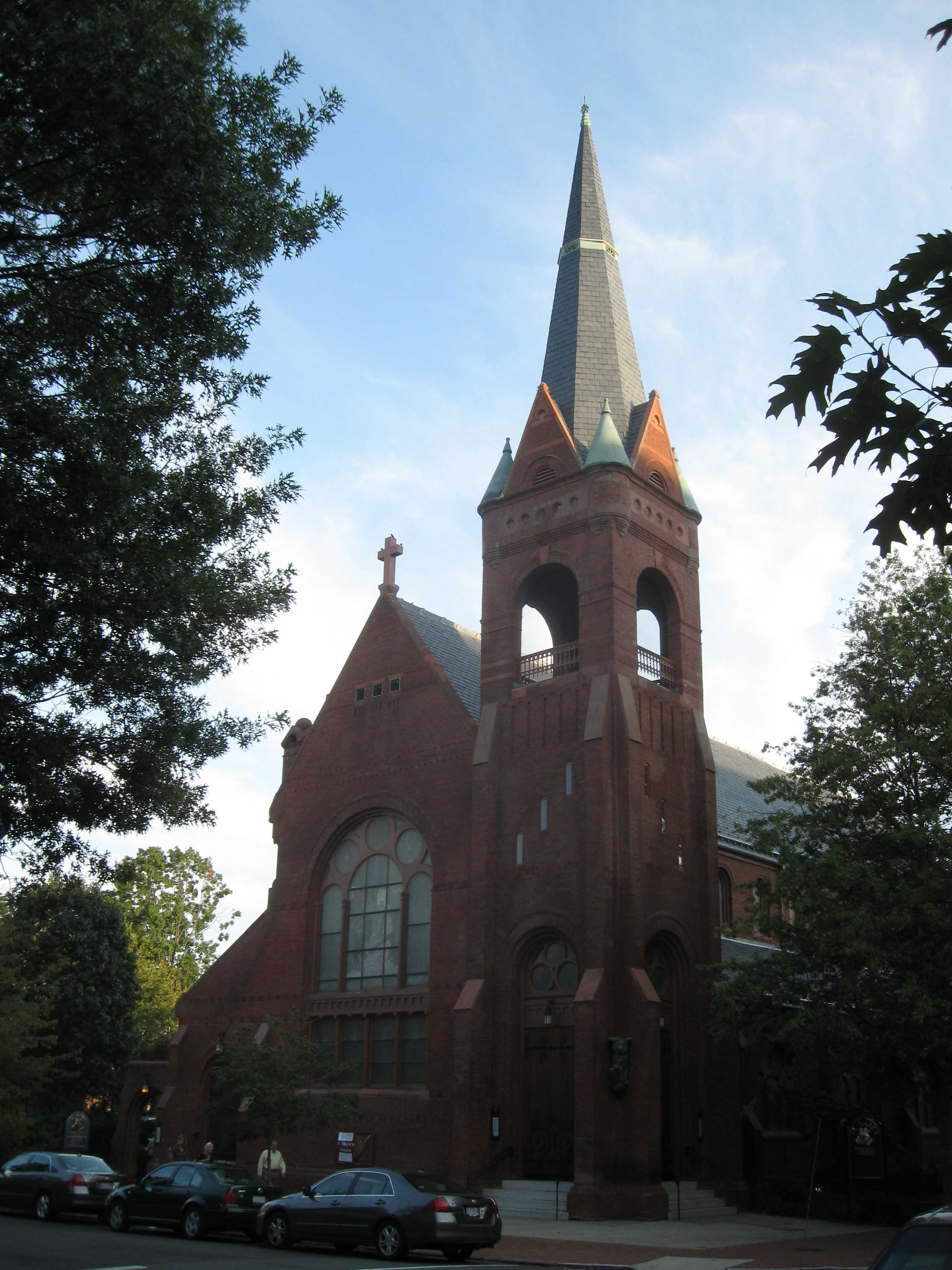 St. Mark's Episcopal Church on Capitol Hill in Washington, DC.